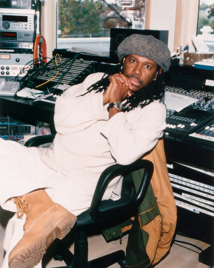 Nile Rodgers at his Le Crib Studios.